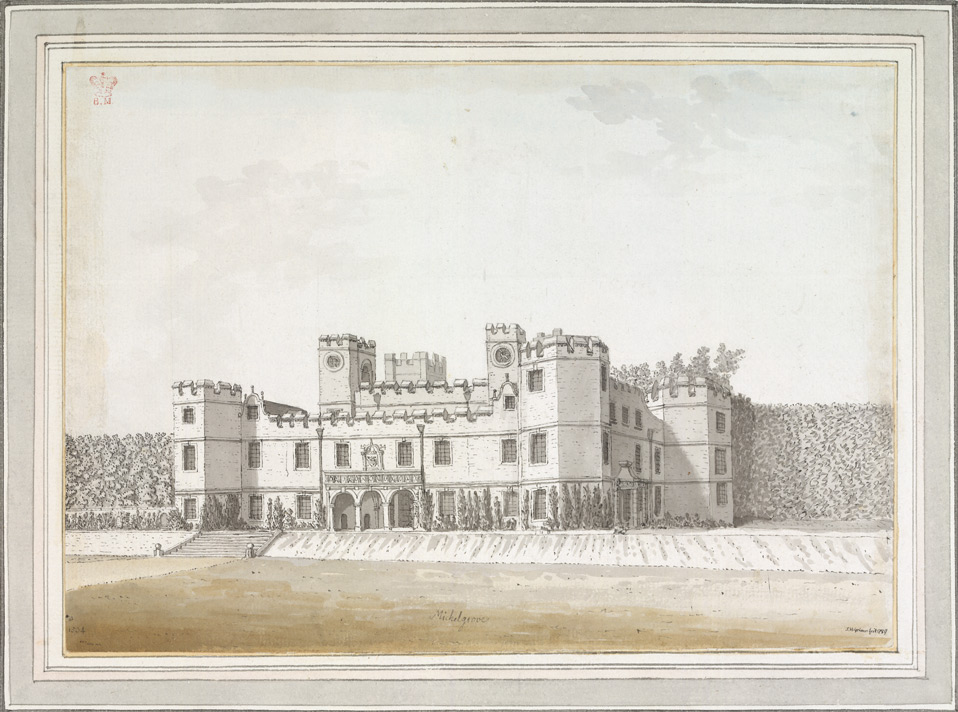 View of Michelgrove House, near Clapham, West Sussex, longtime seat of the Shelley family.